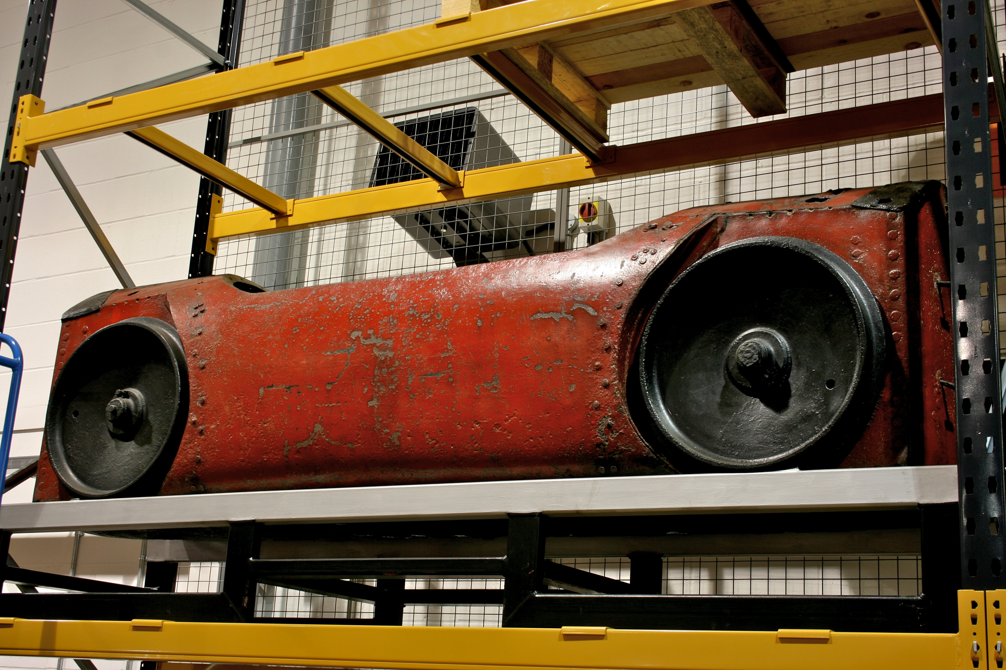 Pneumatic Rail Car. Circa 1860. Constructed for the Pneumatic Despatch Company (sometimes referred to as the Pneumatic Dispatch Company), this company also constructed the 600 yard long tubular line running from Euston to the North West District Office (and future extensions) in which this car was used. The rail car was used for transport of mails between the Arrival Parcels Office at the Euston Station of the London and North Western Railway (beneath platform one) and the North West District Post Office in Eversholt Street, London. The rail cars ran on 24 inch gauge rails in metal tubes. Suction (vacuum) or pressure (blowing) power was achieved from a 30 horse power engine with attached fan. Thirteen journeys a day were made and transport by this means took place between 1863 and October 1866. Collection ID 2004-0138.